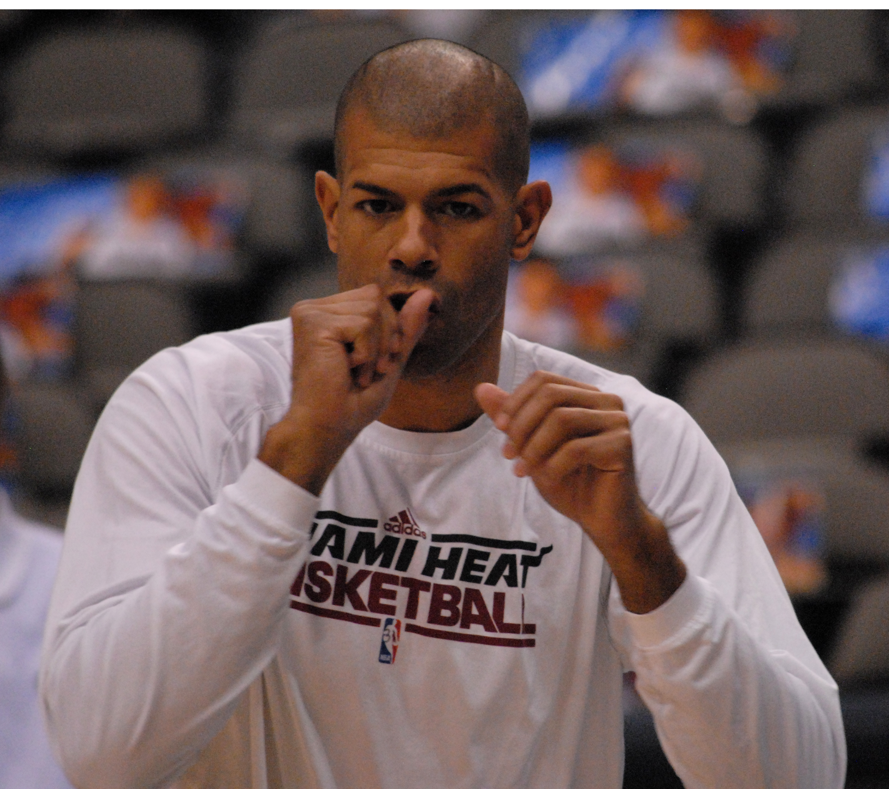 Shane Battier with the Miami Heat